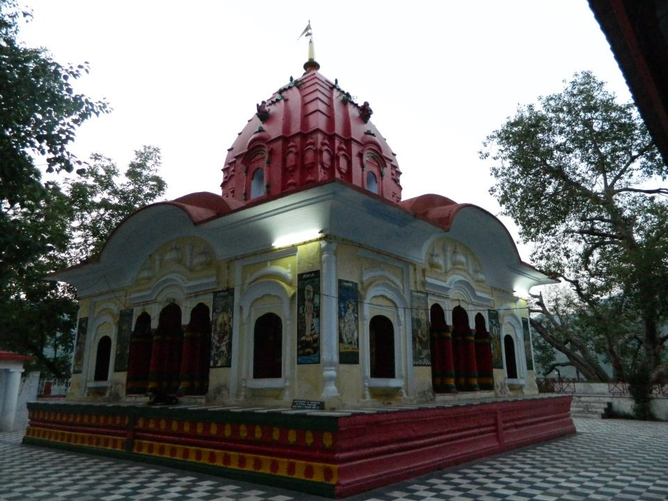 Tarna Temple, Mandi, India